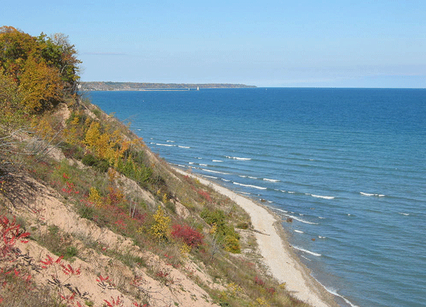 Taken from Lions Den Gorge park, In Ozaukee County Wisconsin. Looking north up the Lake Michigan shore, towards the Port Washington Lighthouse and breakwater. Taken on 15 October, 2005.